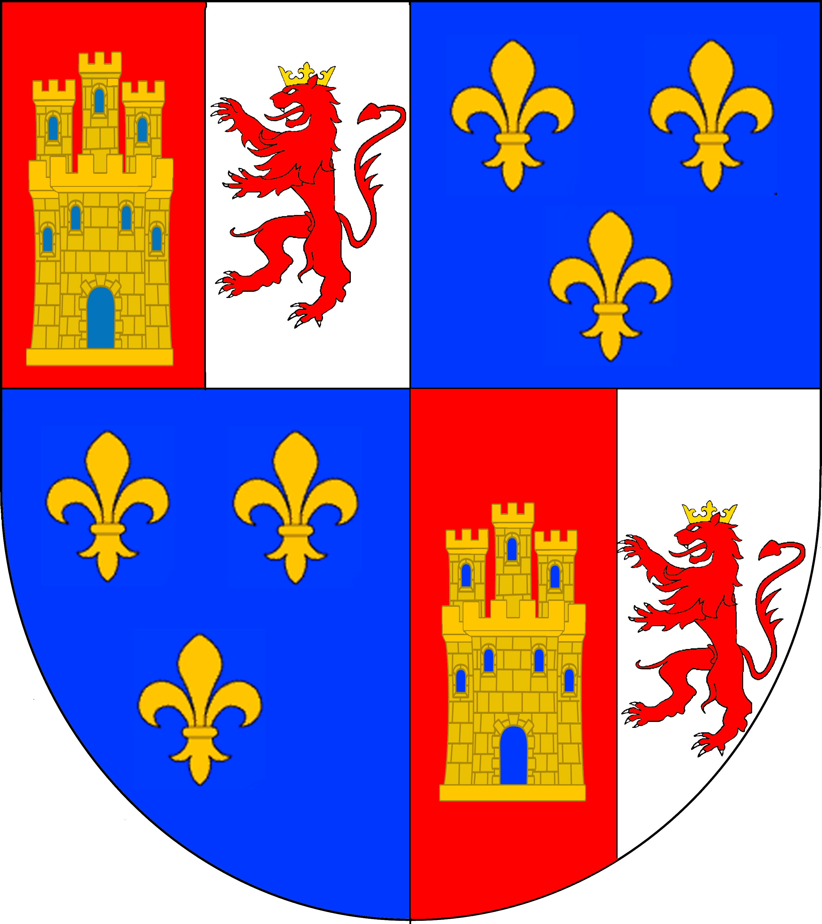 escudo de armas de la casa De la Cerda